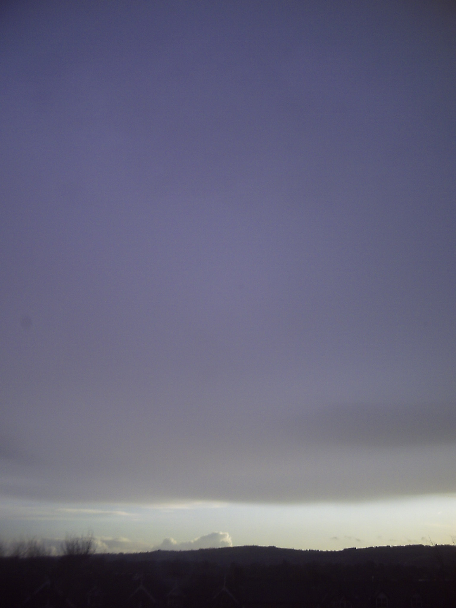 A warm front (according to contemporary reliable pressure charts) which is unusually well defined approaching with the mostly clear sky with cumulus clouds on the horizon disappearing as the altostratus opacus comes in. Possibly represents the side of a warm front.